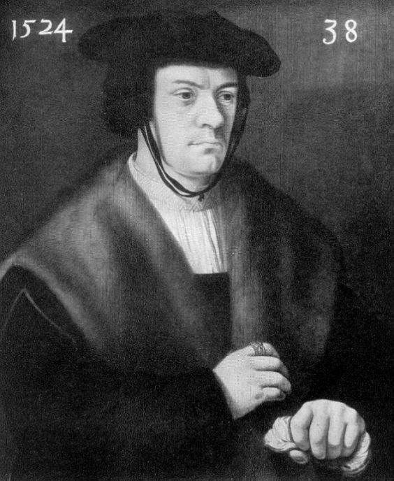 portrait of Agrippa von Nettesheim